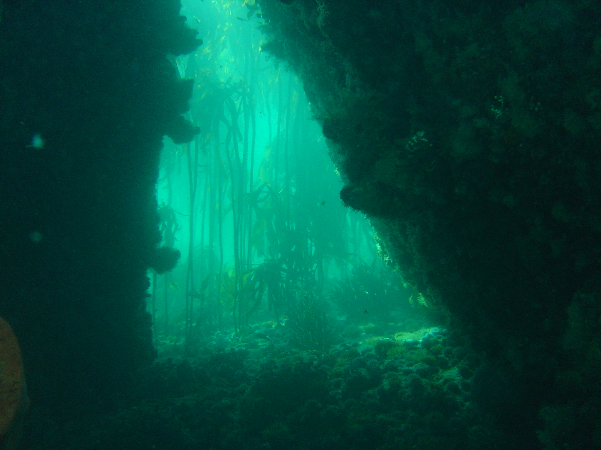 Simon's Town, Cape Peninsula.